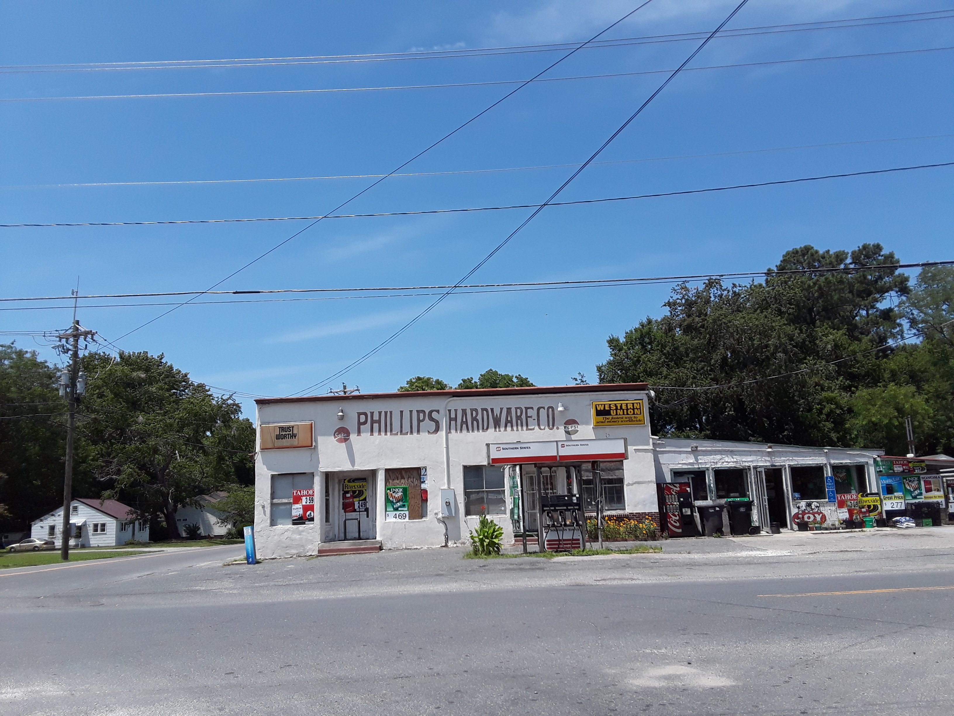 Taken on a visit to the Eastern Shore of Virginia, July 2018